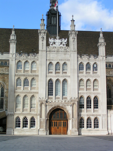 The Guildhall. This is the South side and entrance to the Guildhall in the City of London. These door are only used on special occasions.